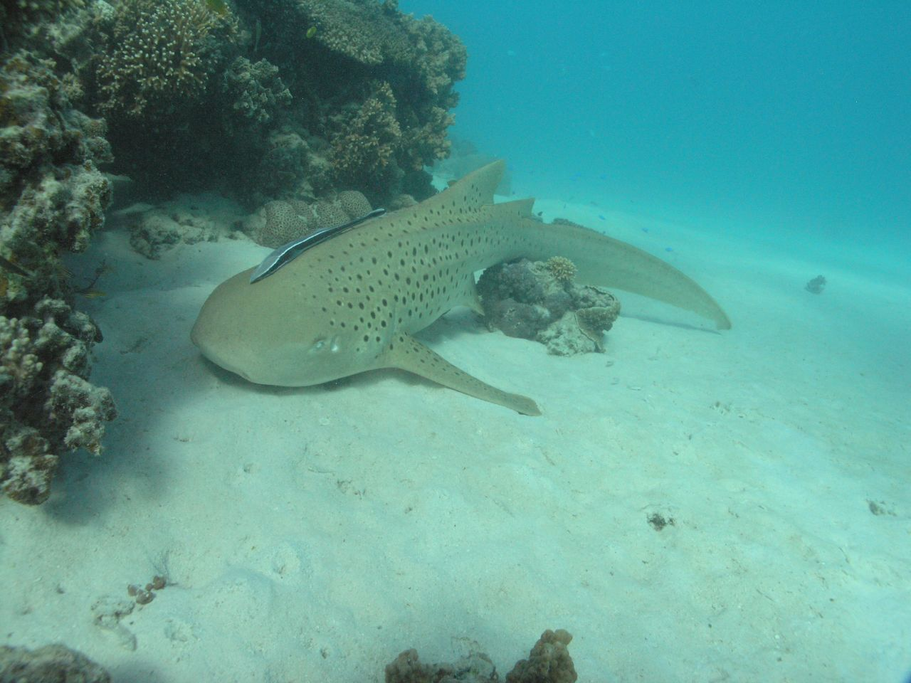 Zebar shark (Stegostoma fasciatum) on Ningaloo Reef